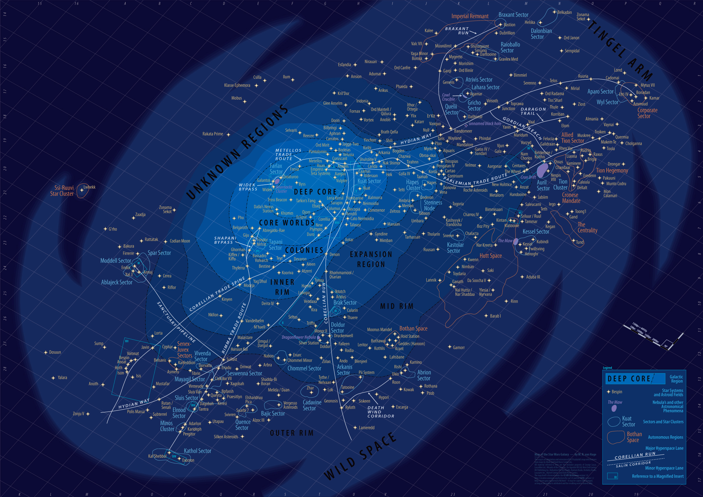 This is an unofficial, fan made map which represents planets and routes of the fictional galaxy from the Star Wars universe.